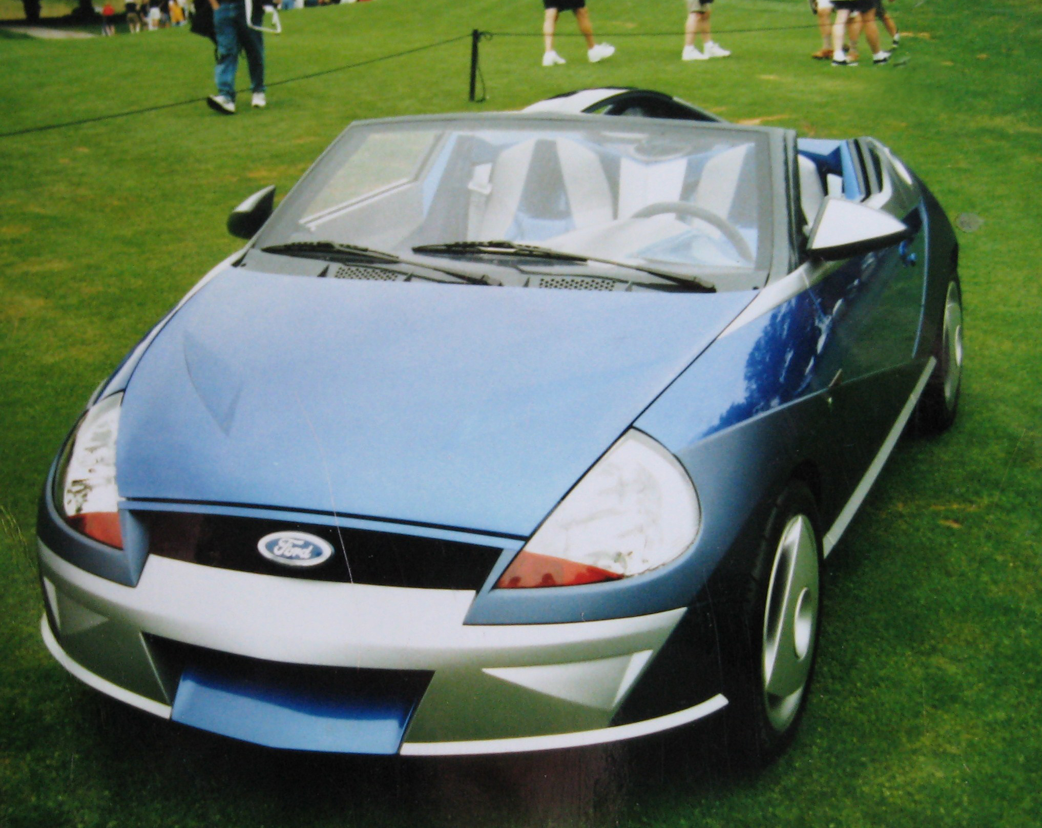 Ghia Saetta concept car at the 1997 Meadowbrook Concours, Dodge Mansion, Oakland University, Michigan.